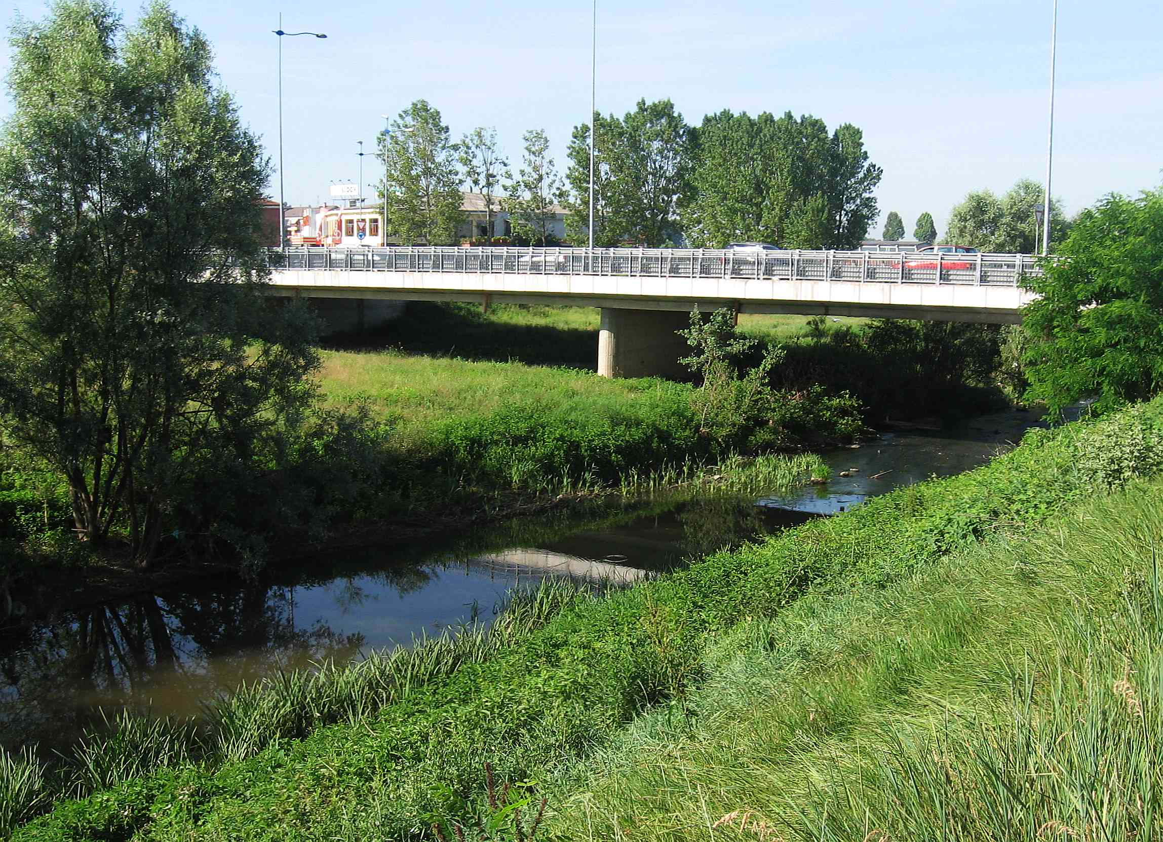 Poirino (TO, Italy): the bridge on the higway 29